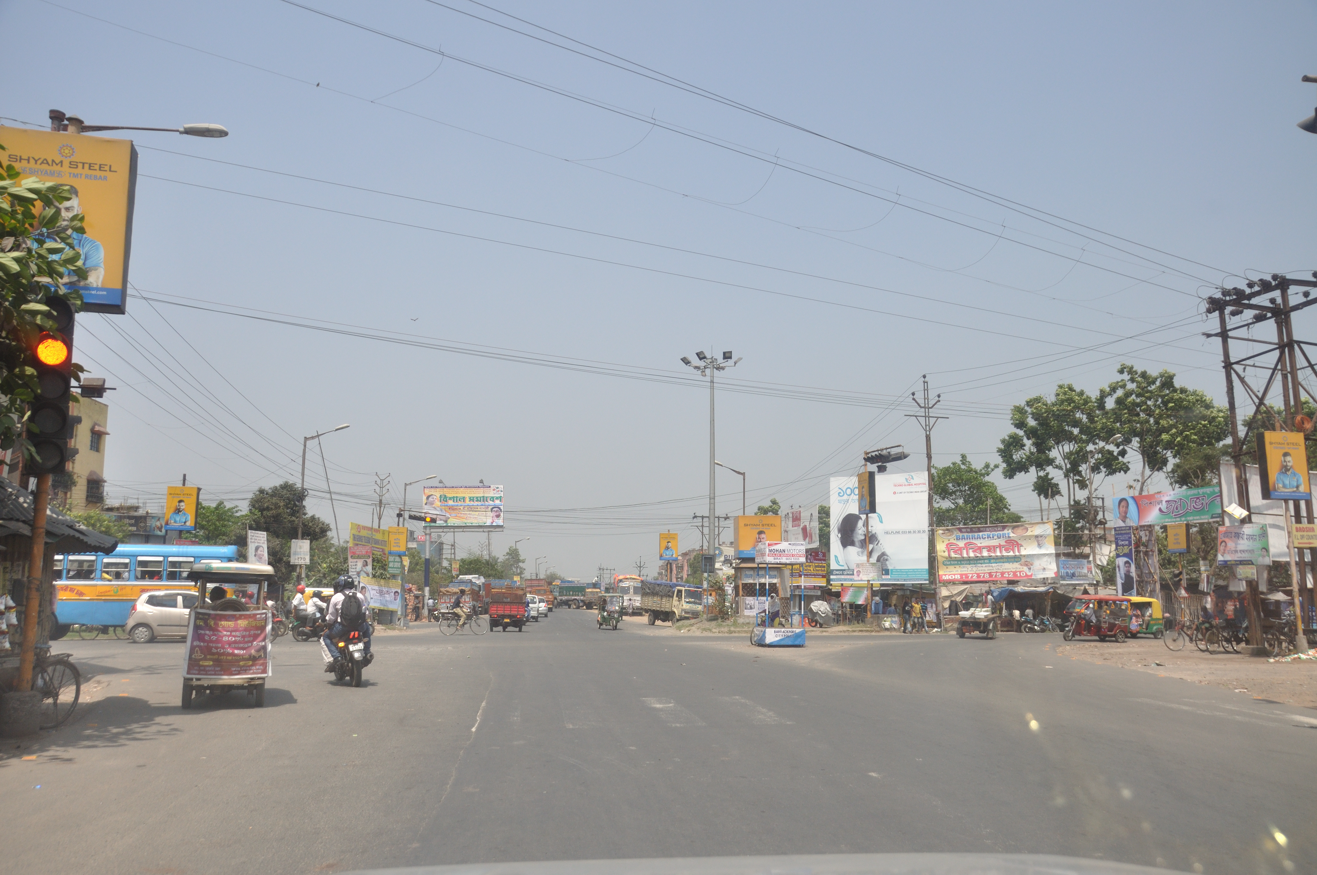 This photograph was taken in North 24 Parganas, West Bengal.